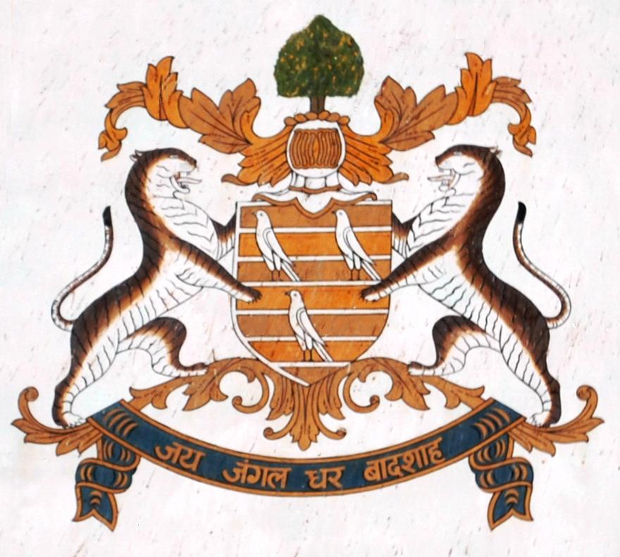 Bikaner State coat of arms